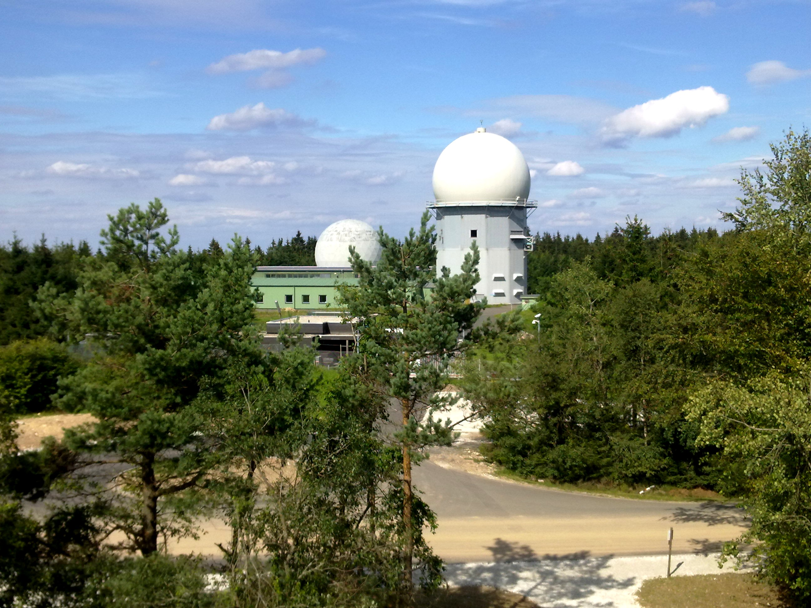 Peak Radar towers